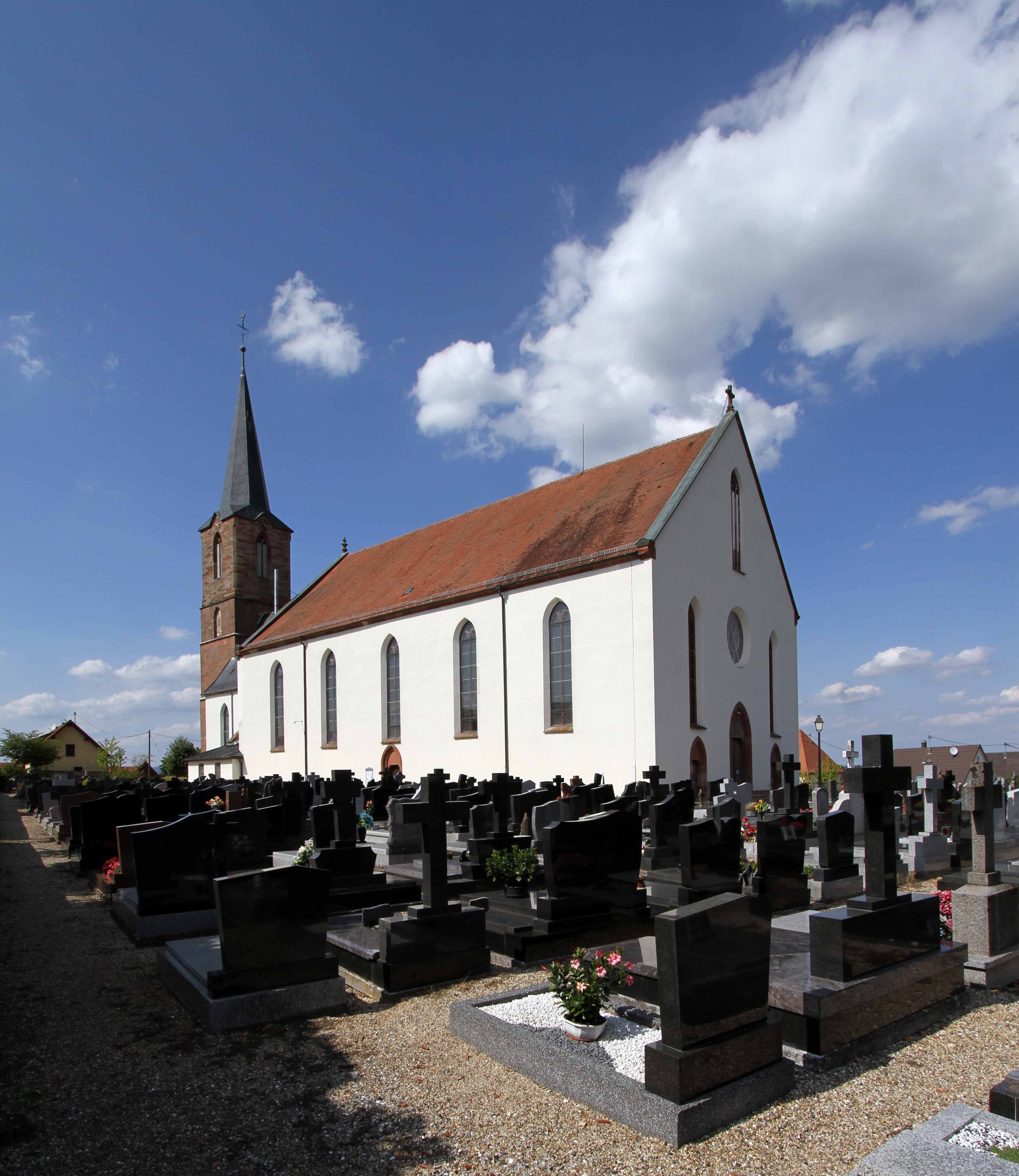 Church of Saint Bartholomew in Schleithal.